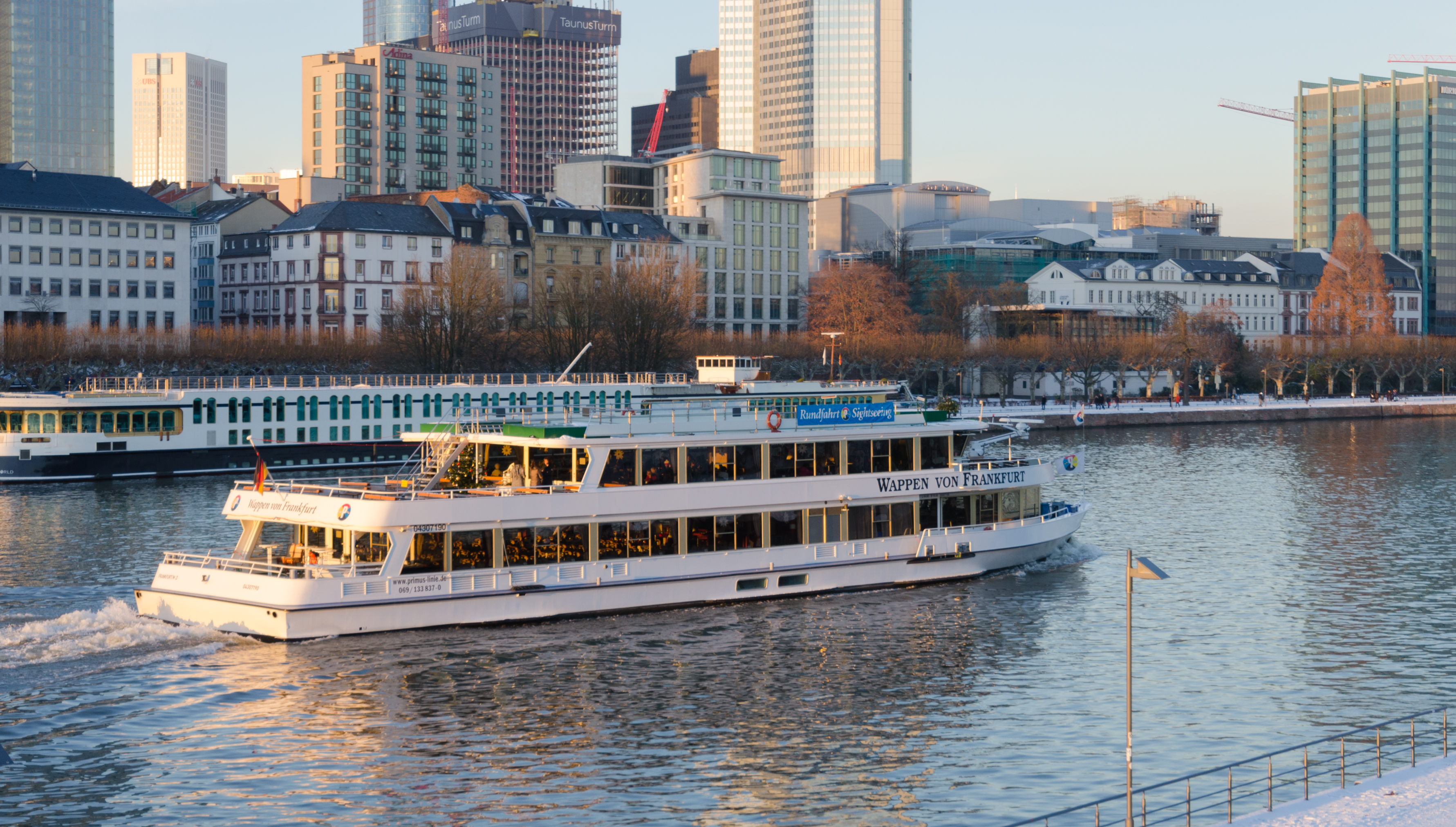 Wappen von Frankfurt (tour boat), river Main, Frankfurt, Germany.